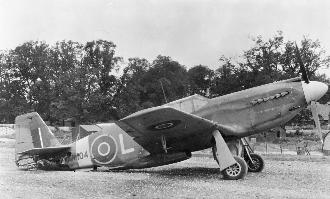 A badly damaged North American Mustang Mark I (AM104, 'L') of No. 268 Squadron RAF, on the ground at Odiham, Hampshire (UK), after returning from a sortie over the Rouen area, France. The pilot, Flying Officer A.R. Hill of Norwich, was met by heavy anti-aircraft fire while attacking barges on a canal. Despite losing the rudder controls and the hydraulic system, Hill brought the aircraft back for a successful landing. AM104 was repaired and later flew with Nos. 414 and 430 Squadrons RCAF before it was again damaged by flak, near Venlo, Holland, on 21 October 1944, and was finally struck off charge.